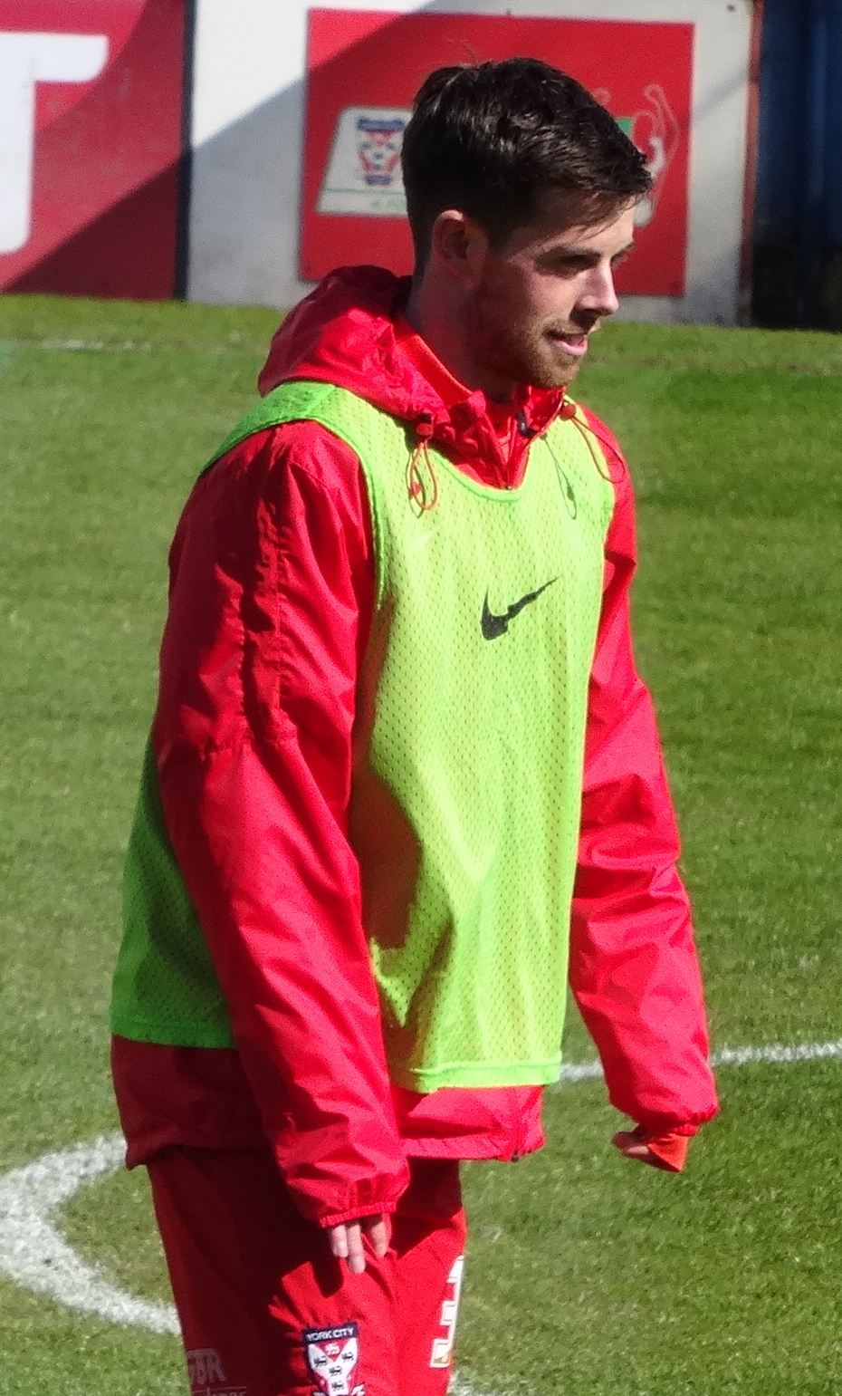 Kenny McEvoy training with York City during half-time against Bristol Rovers at Bootham Crescent, York on 30 April 2016